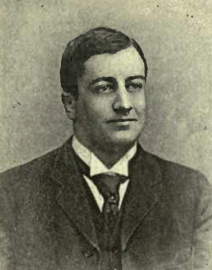 A picture of John Lawrence Hickson, former captain of the England rugby union team.